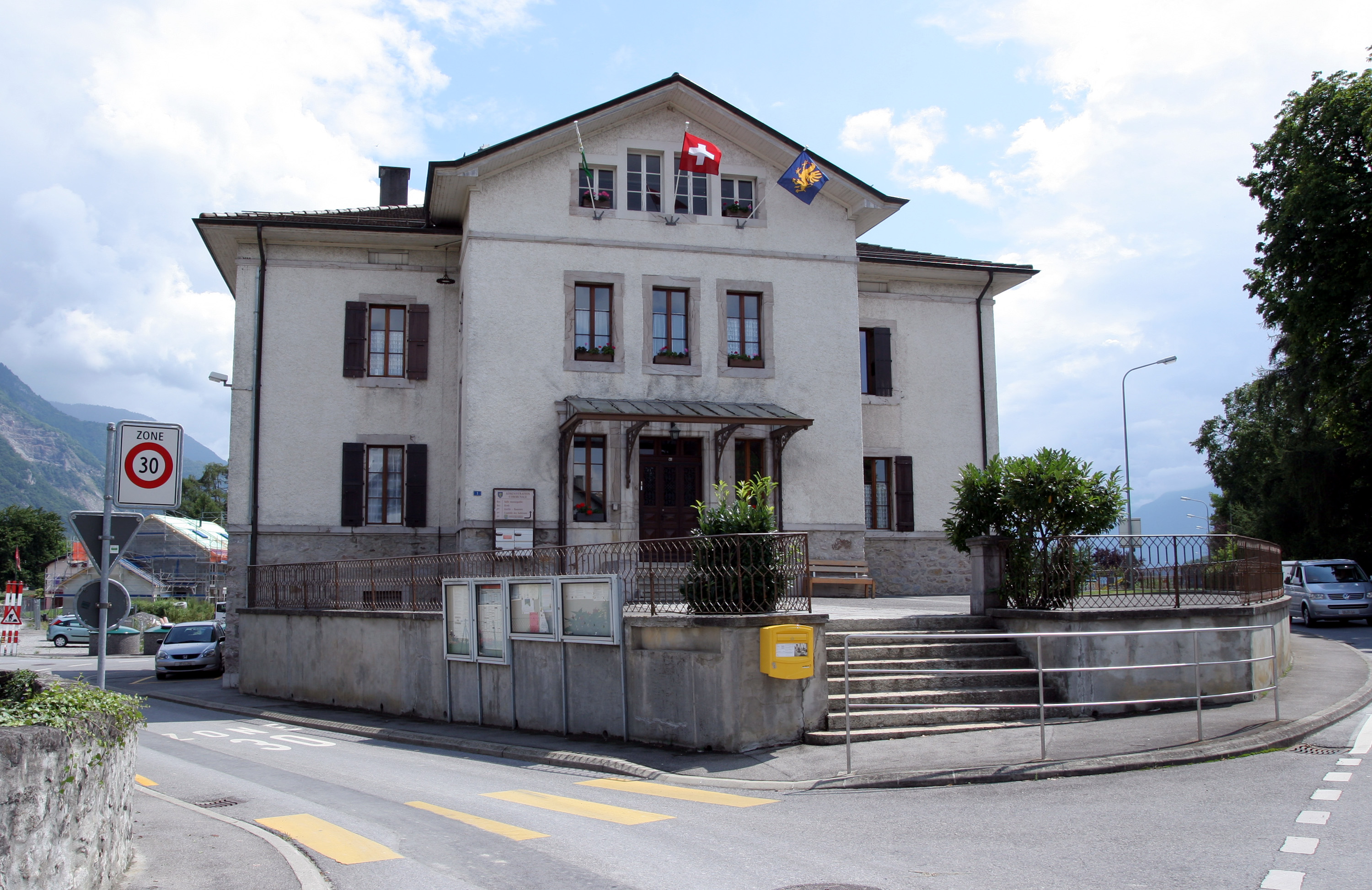 The community hall of Noville VD, Switzerland.